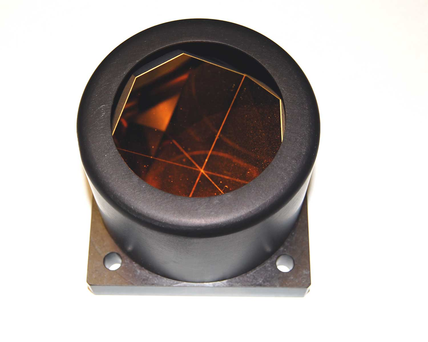 Gold first-surface corner-cube retro-reflector